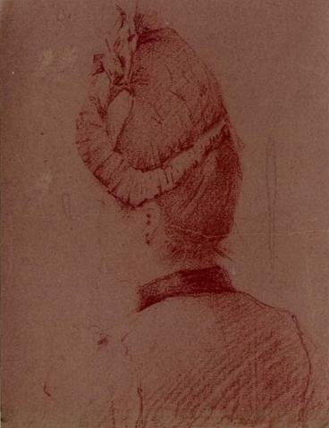 Woman seen from the back, drawn by Marcel de Chollet